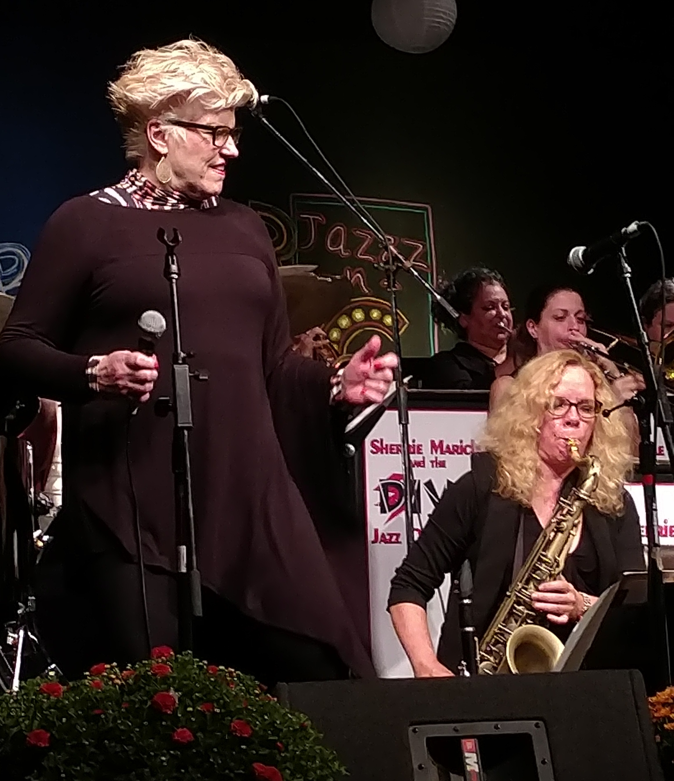 At Jazz N Caz Nancy Kelly performs with Sherrie Maricle and the DIVA jazz orchestra.